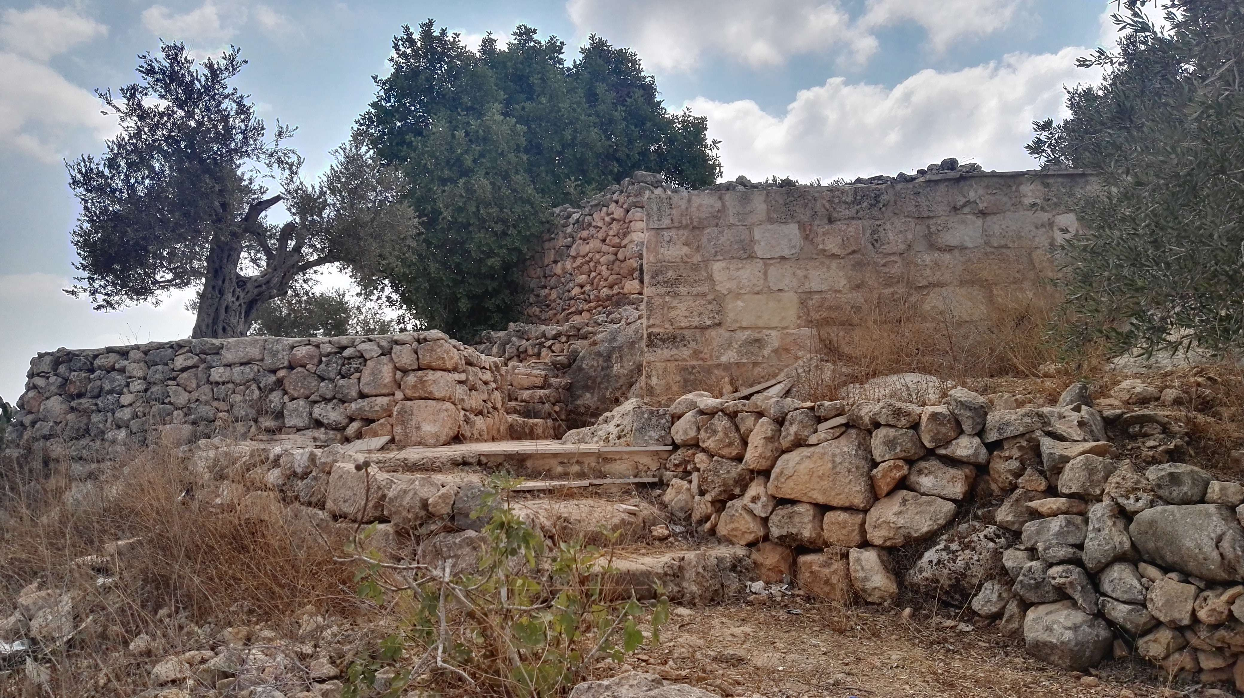 Near the ruined St Barbara church, Aboud.